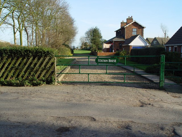 Station House, Keyingham, East Riding of Yorkshire, England.Now a private residence.